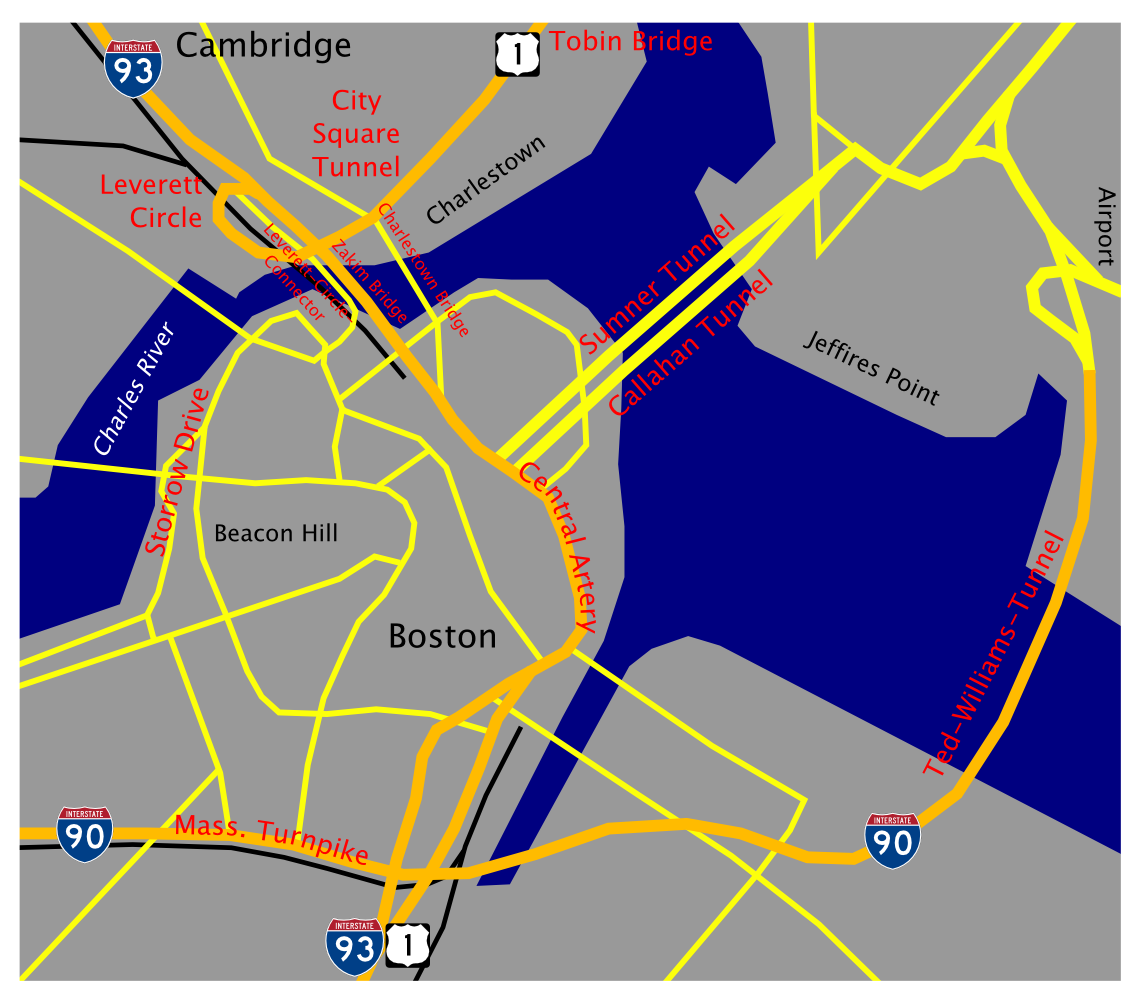 Map of Boston with "Big Dig" locations. If you want to make changes to this file, edit Boston-big-dig.svg instead.